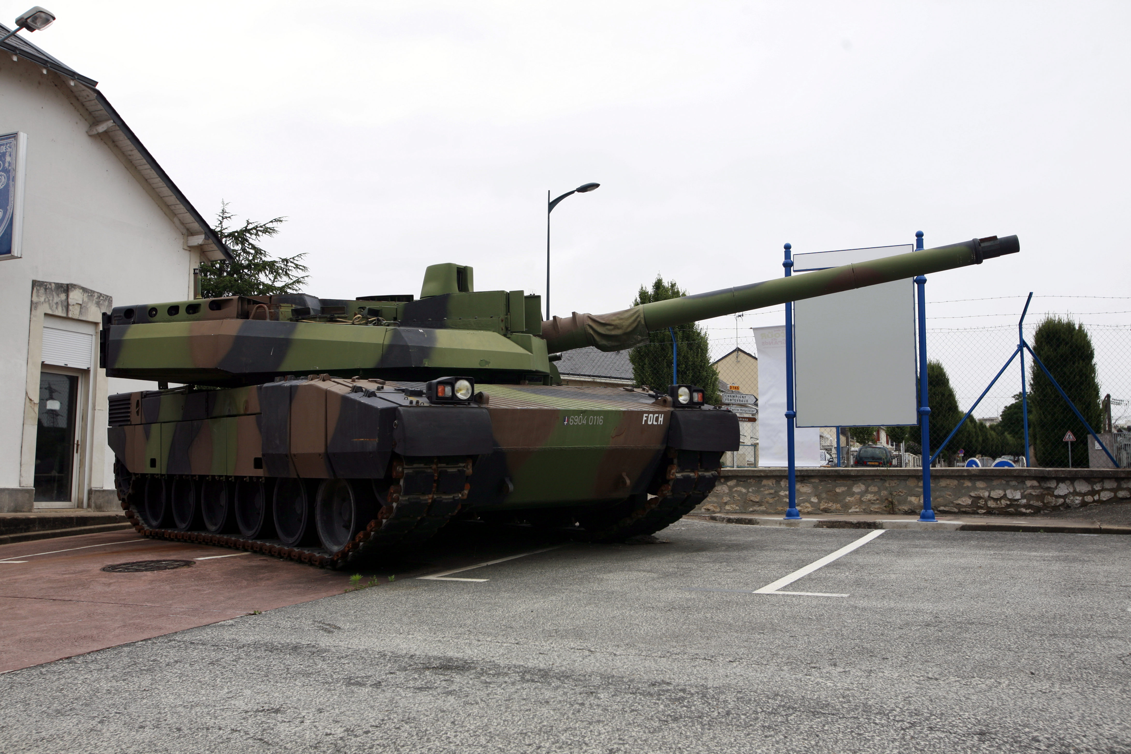 Leclerc prototype Foch. On display at Saumur Général Estienne museum.